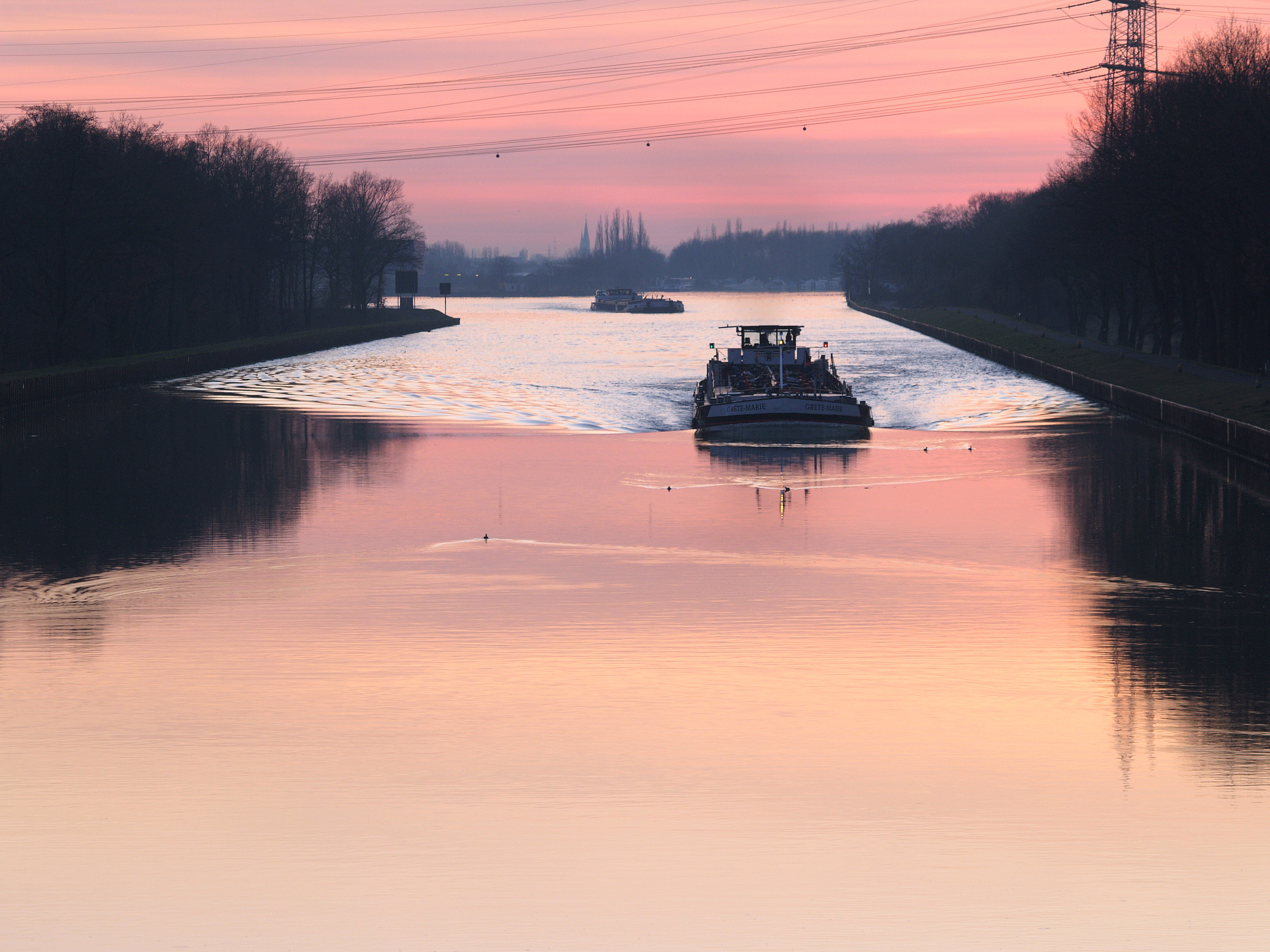 Rhine-Herne Canal. Bow waves by a canal ship and some of water-birds